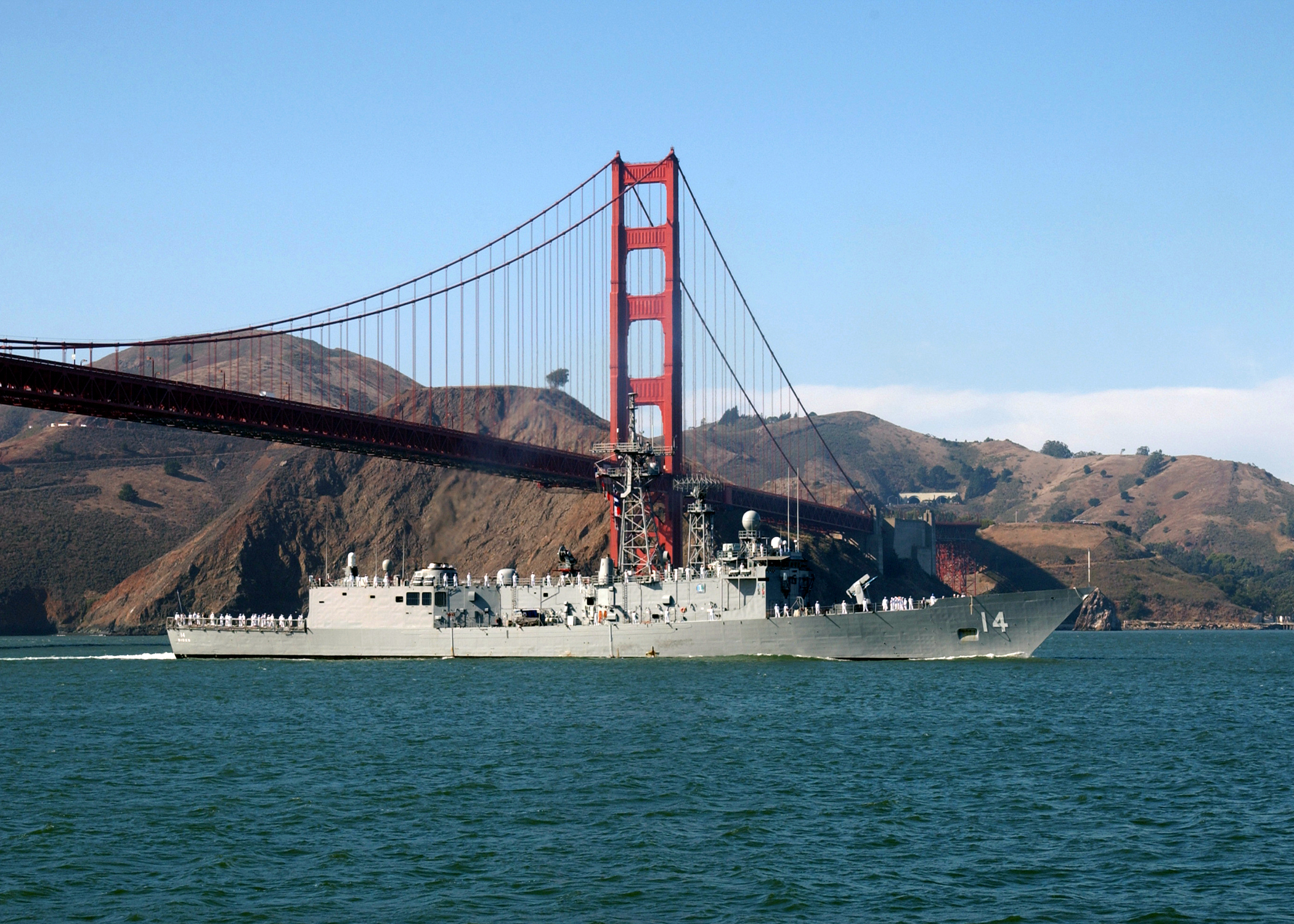 San Francisco, Calif., (Oct. 6, 2002) -- Sailors aboard USS Sides (FFG 14) "man the rails," as the guided missile frigate sails under the Golden Gate Bridge and into San Francisco harbor for a scheduled three-day port visit in the area. U.S. Navy photo by Photographer’s Mate Airman Andrew Betting. (RELEASED)